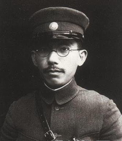 Tang Shengzhi, general of ROC.